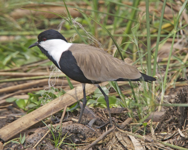 Spur-winged lapwing Vanellus spinosus Akagera, Rwanda 15th. August 2009 Distribution: 690V1606